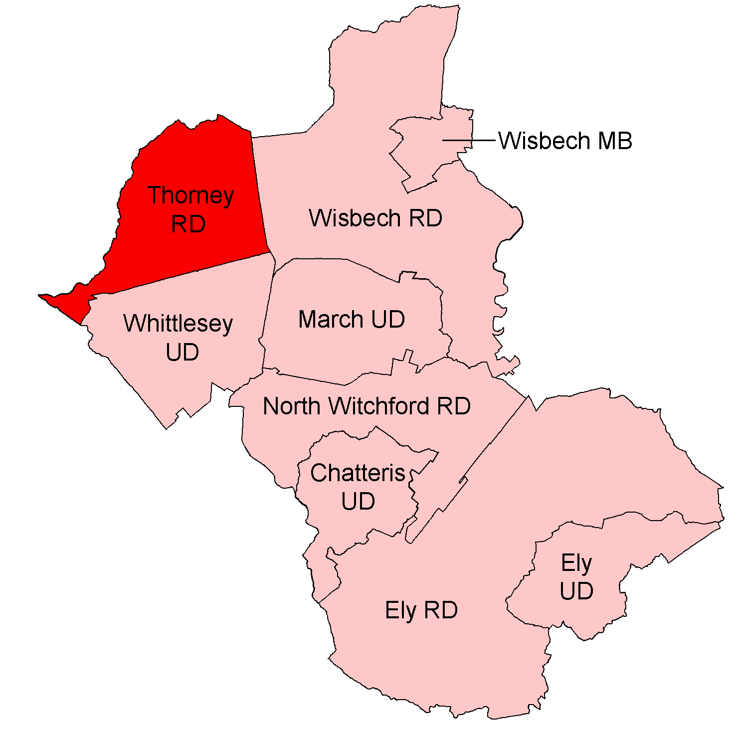 Thorney Rural District, shown within the administrative county of the Isle of Ely. All boundaries shown are correct from 1935 to 1960. Thorney RD itself was unchanged between 1933 and abolition in 1974.